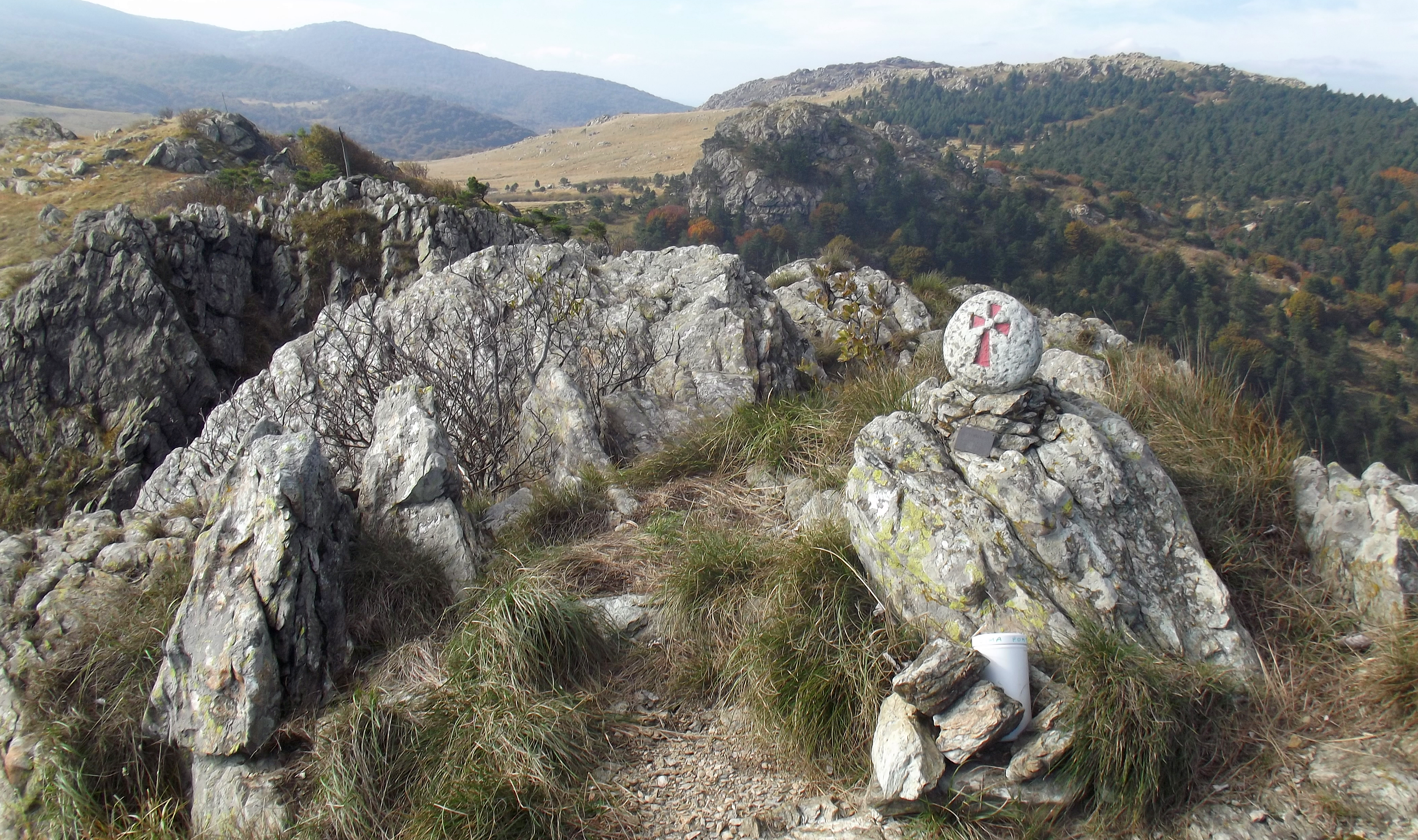 Cima Fontanaccia; Bric Resunnou and Bric Damè in the background (Ligurian Apennines)